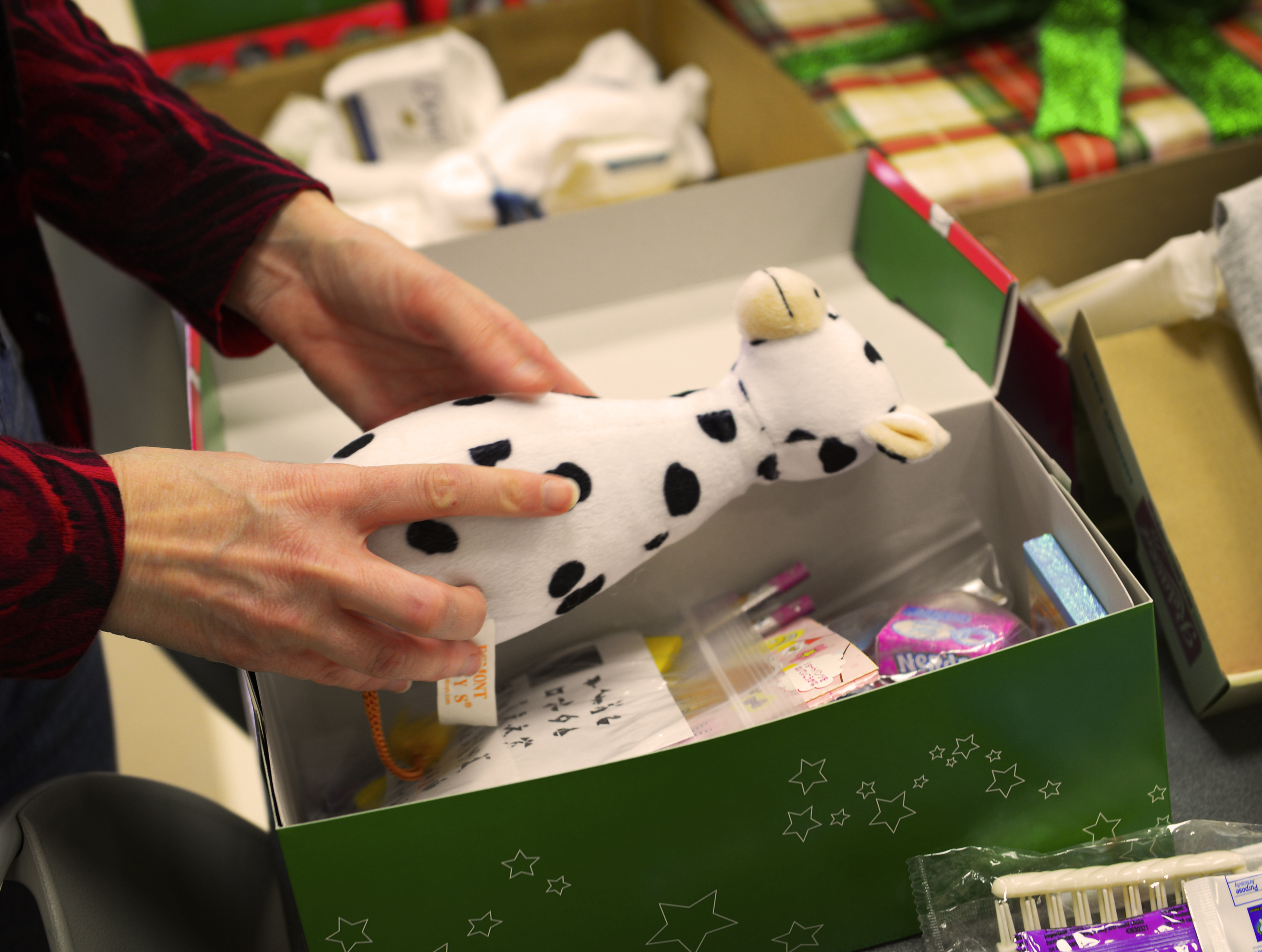 Drew Jernigan, coordinator for Yokota’s Operation Christmas Child initiative, packs a gift box at Yokota Air Base, Japan, Nov. 10, 2016. Every year Jernigan and her daughter, Emma Grace, collect toys, school supplies, hygiene items and more to pack in shoe boxes and send to disadvantaged children all over the world. (U.S. Air Force photo by Airman 1st Class Elizabeth Baker/Released) Unit: 374th Airlift Wing